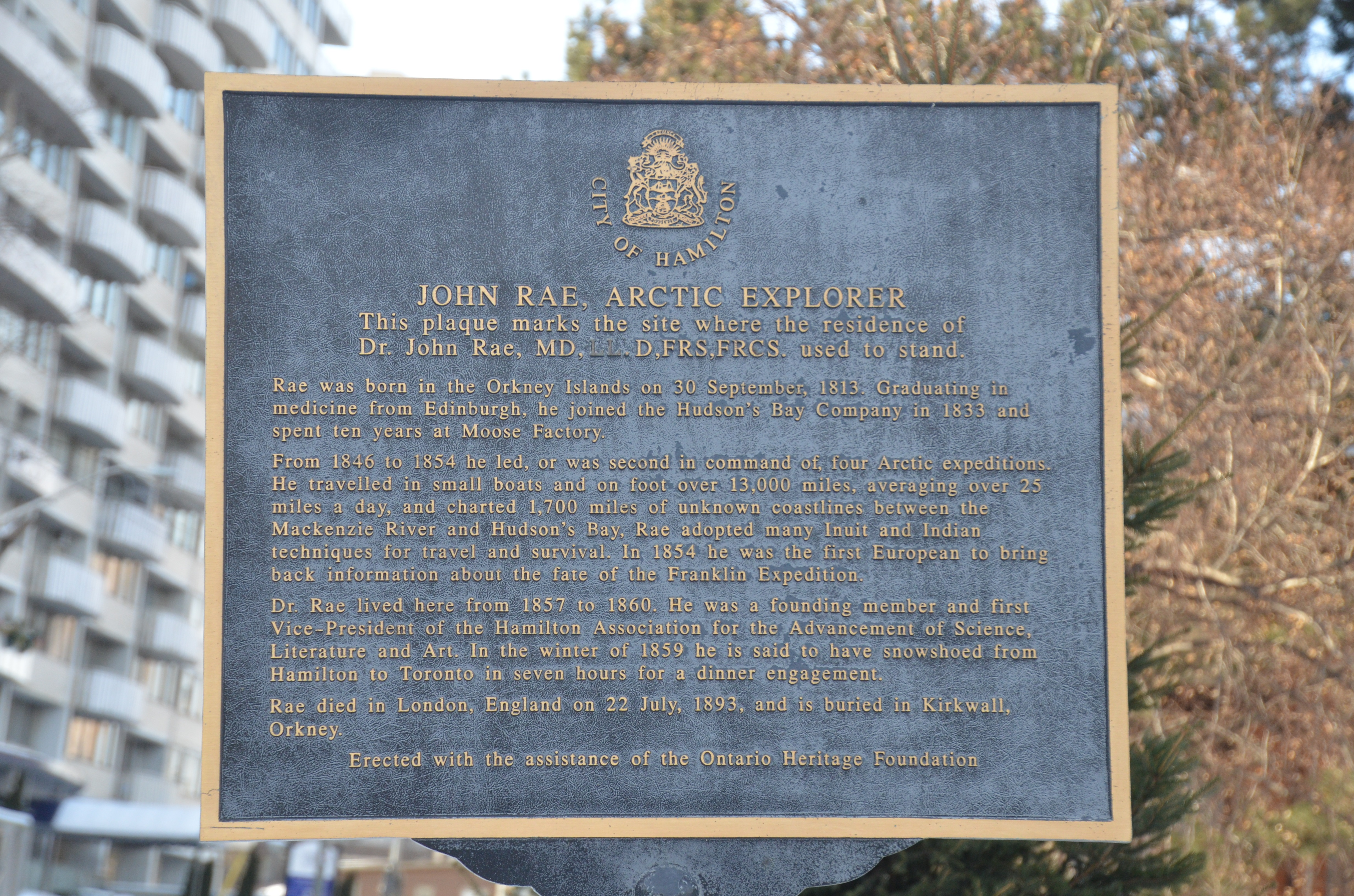 Historical plaque commemorating Dr. John Rae's time in Hamilton, Ontario, Canada. At corner of Hunter and Bay Streets, Hamilton. Unveiled 1994.